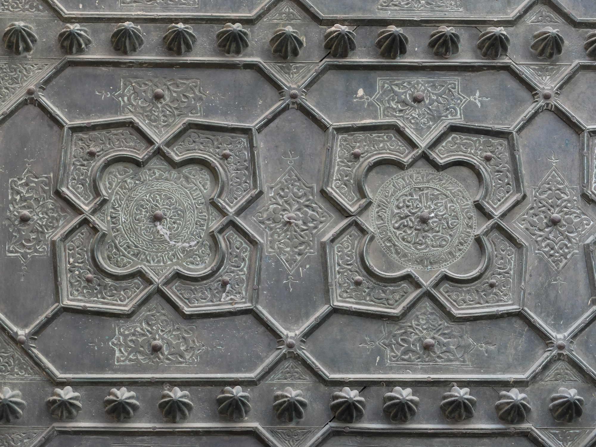 Close-up. Bab al-Gana'iz, the southwestern gate of the Qarawiyyin Mosque, leading into the Jama' al-Gana'iz or "funeral mosque". The bronze overlay on the doors dates from the Almoravid era.